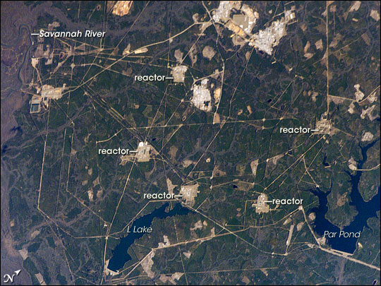 Annotated astronaut photo of the Savannah River Site, South Carolina, USA. Picture taken from the International Space Station.